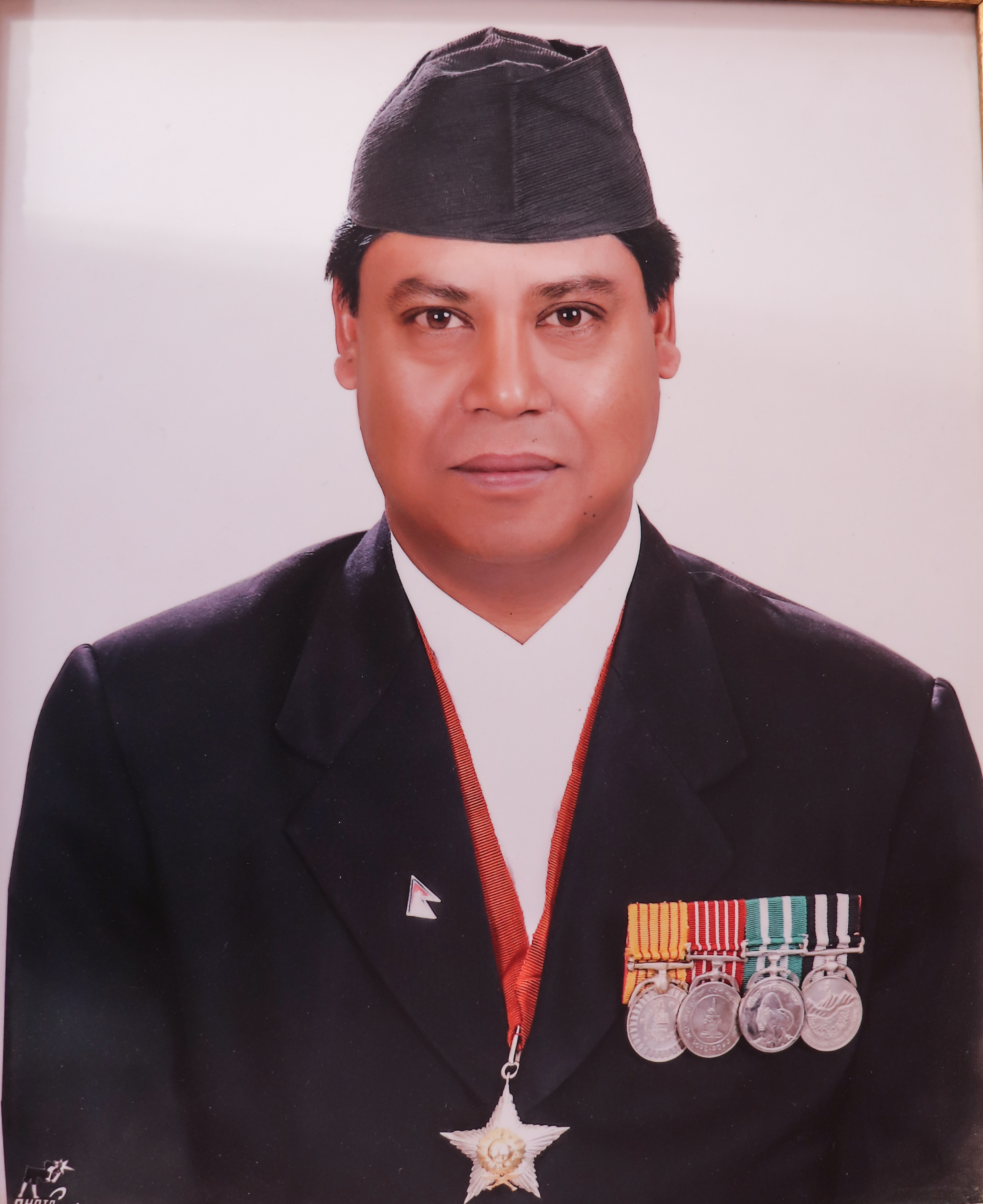 Purna Nepali